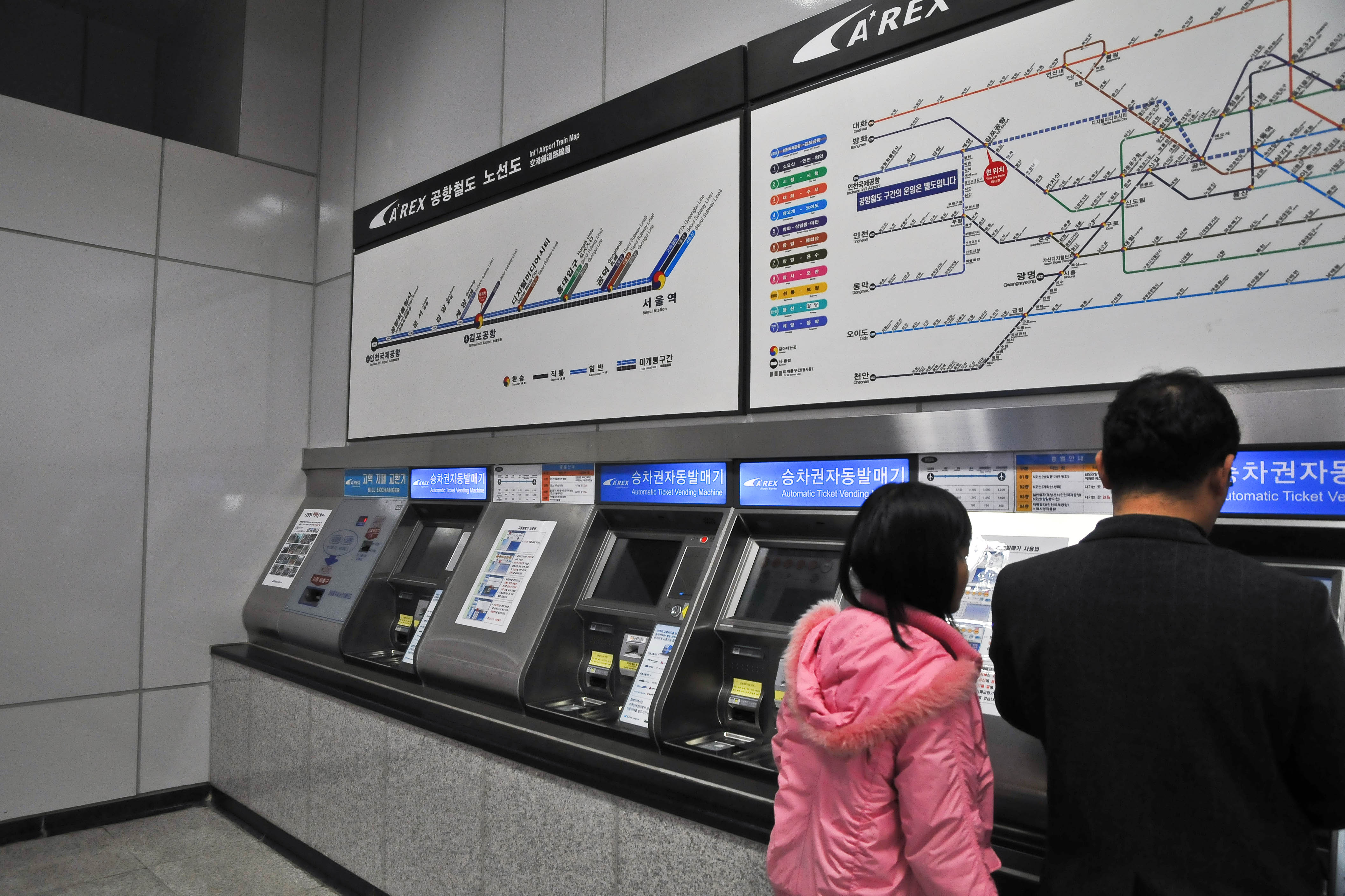 Automatic Ticket Vending Machine of AREX at Gimpo International Airport station, Korea.